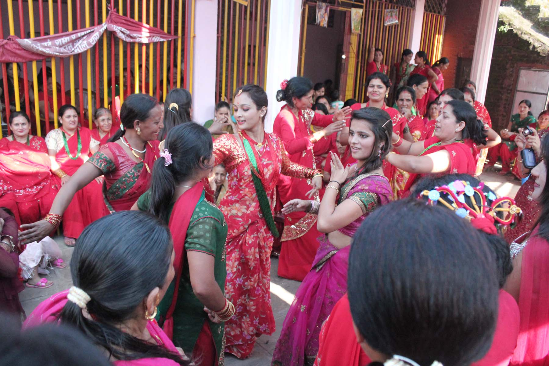 नेपाली: Ladies dancing in a temple in Lalitpur on the occasion of Teej.